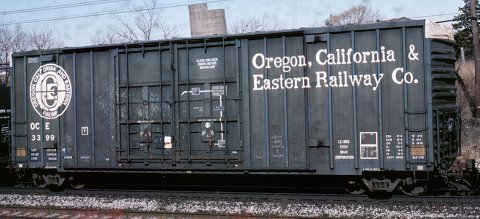 Oregon, California and Eastern Railway rolling stock; 50' Double Plug Door Hi-Cube Boxcar, 3399